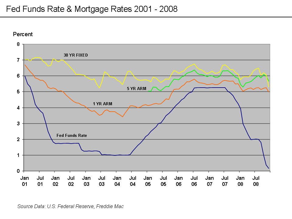 Fed Funds Rate vs. Mortgage interest rates Source Data Fed Funds: Fed Funds Rate Data Mortgage Rates: Freddie Mac - Historical Mortgage Data Note: 5 Year ARM data was only available for the time period indicated.